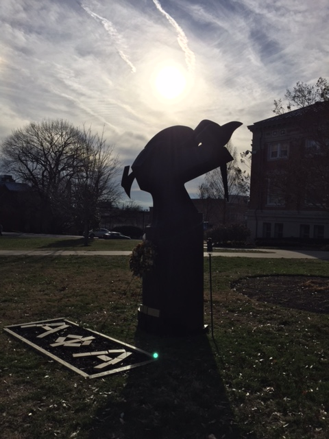 "Symbiosis" by Richard Hunt was a gift to Howard University by former university trustee Hobart Taylor.